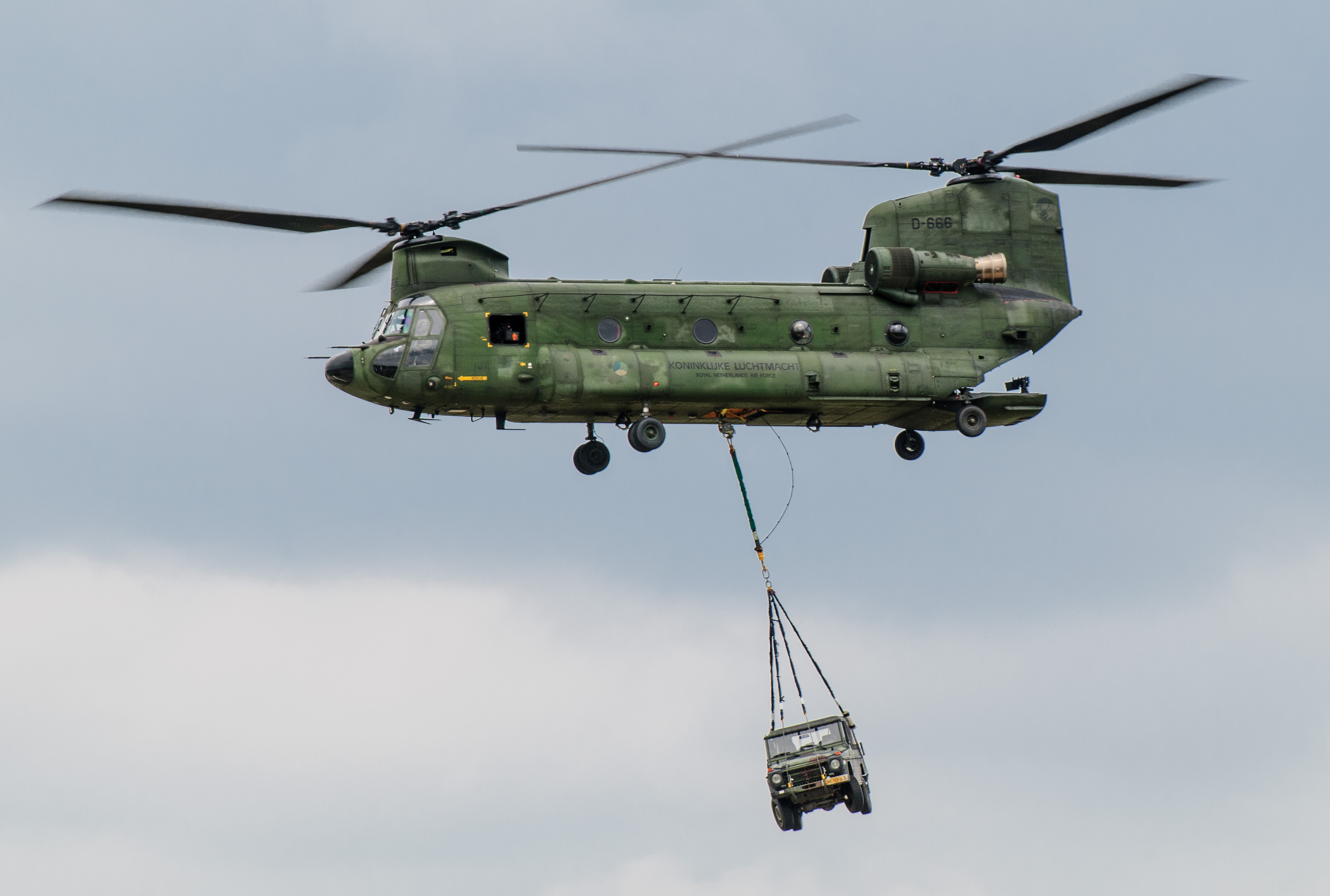 Helicopters NL Air Force Days